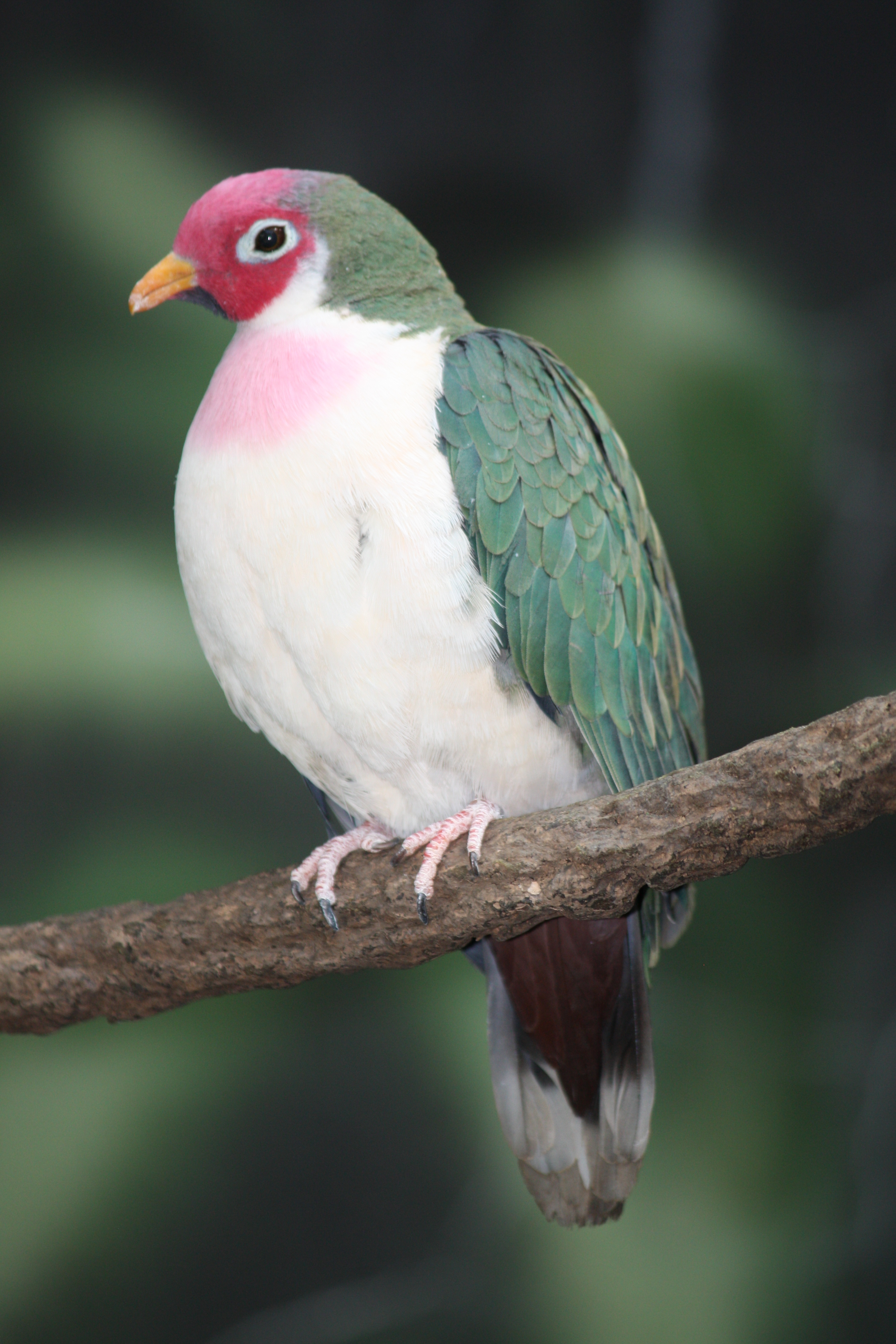 Jambu Fruit Dove Ptilinopus jambu Louisville Zoo